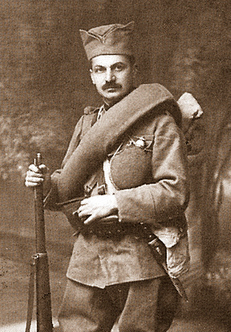 (1863–1944), before leaving for World War I